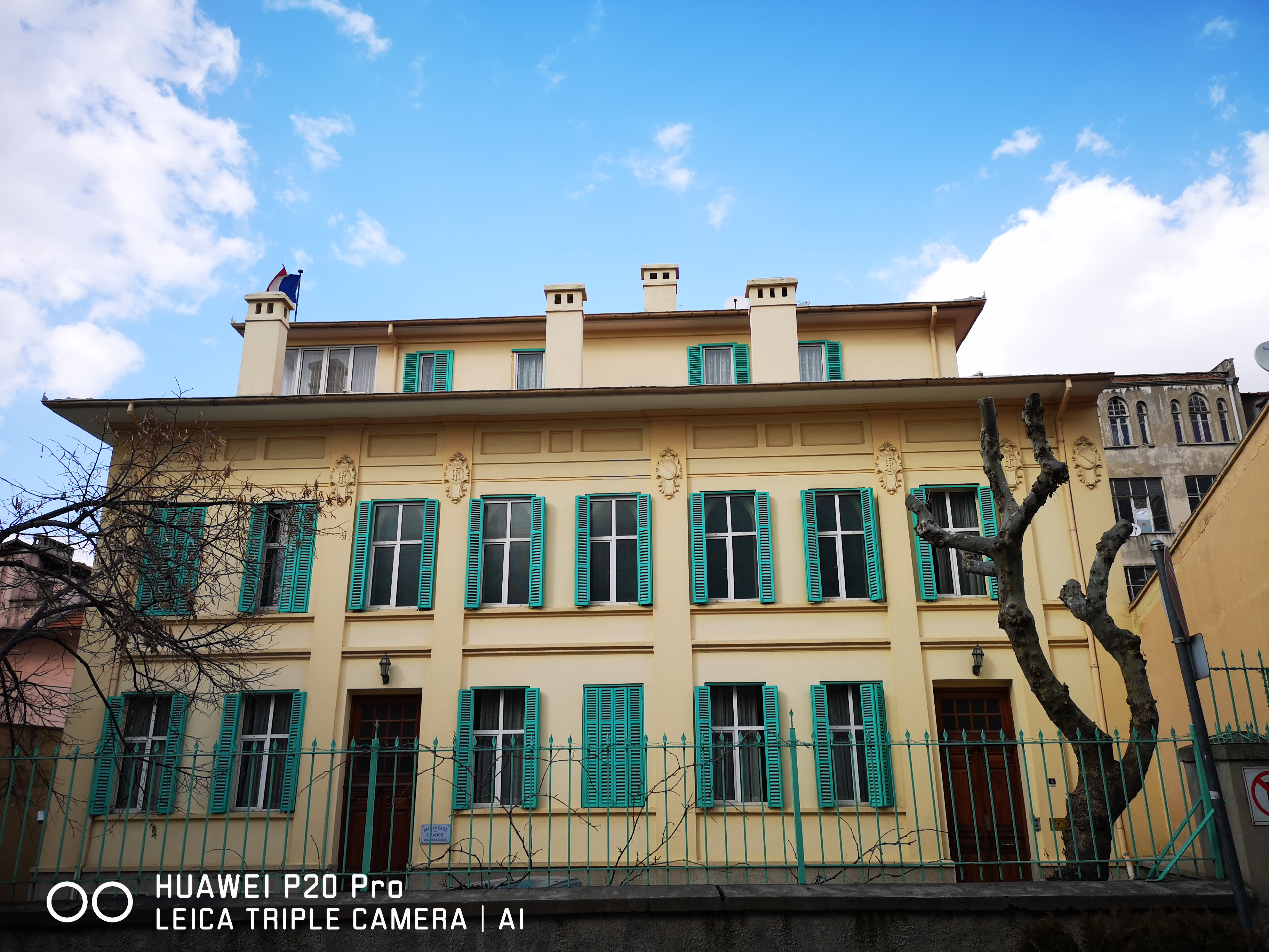 Building of St. Térèse Church with turquoise blinds.